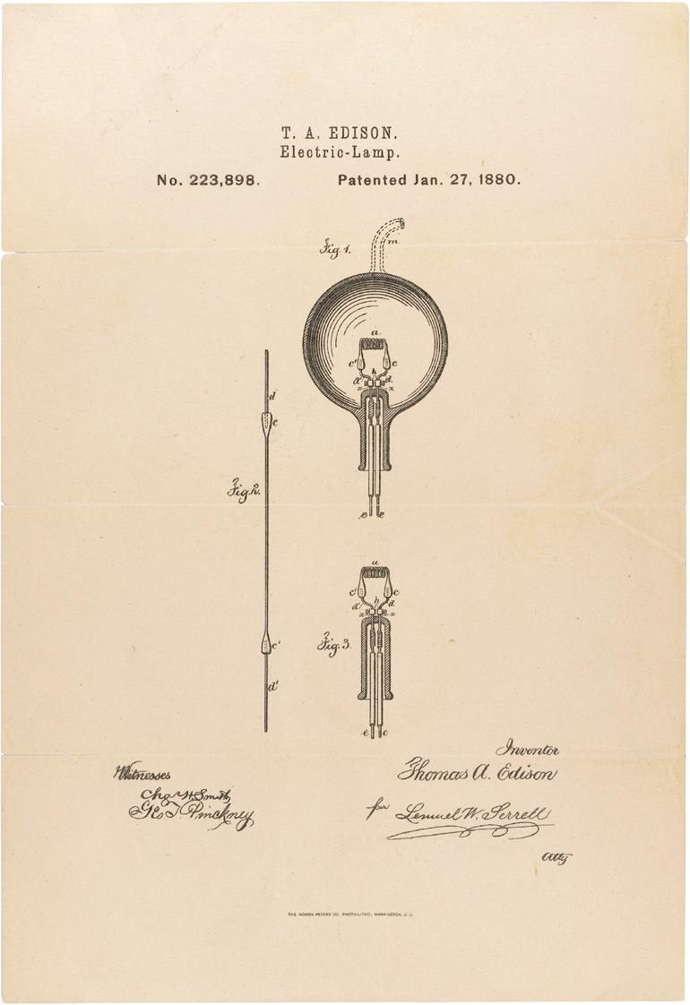 T.A. Edison patent on the light bulb. January 27, 1880